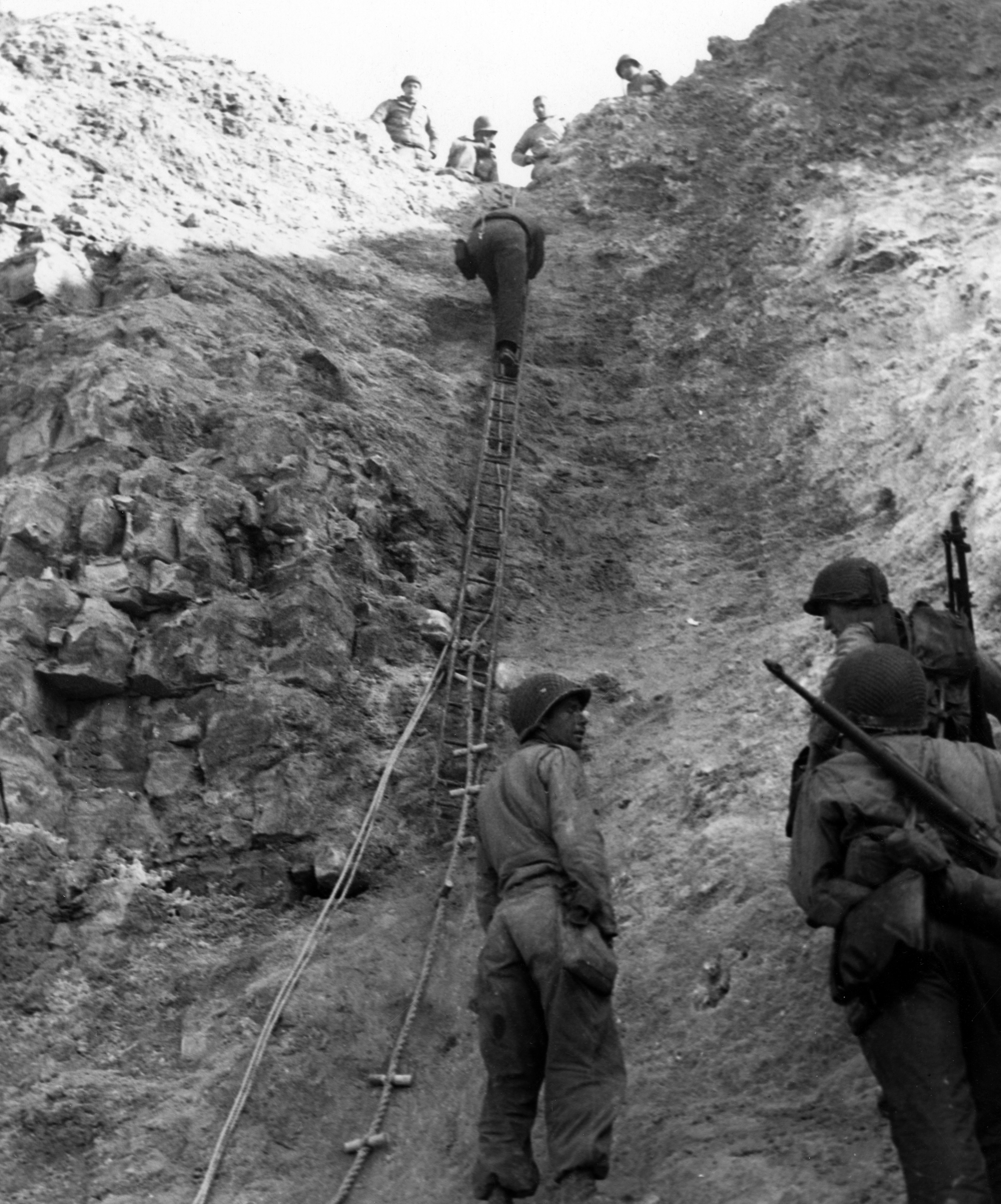 U.S. Army Rangers show off the ladders they used to storm the cliffs at Pointe du Hoc, which they assaulted in support of Omaha Beach landings on D-Day, 6 June 1944. Photograph was released for publication on 12 June 1944. Official U.S. Navy Photograph, now in the collections of the National Archives.